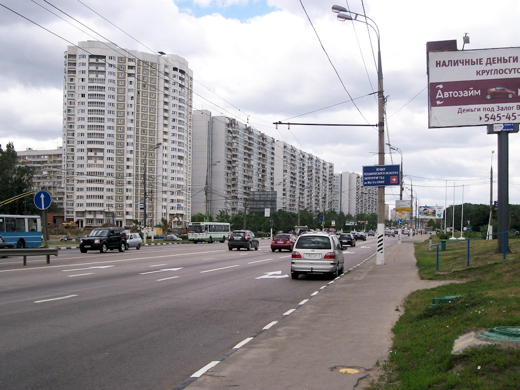 Lipetskaya Street in Moscow